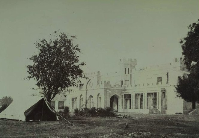 Photograph of Ludlow Castle taken soon after the Indian Rebellion of 1857. Uploaded by Fowler&fowler«Talk» 11:45, 26 September 2011 (UTC)